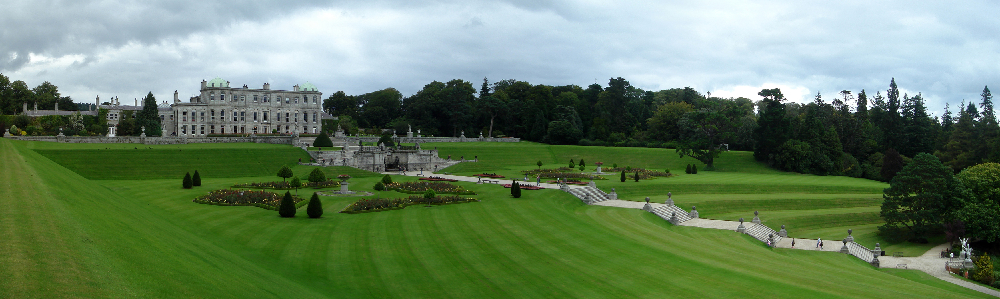 Edit of Powerscourt.jpg. (Powerscourt Estate, in County Wicklow, Ireland.)